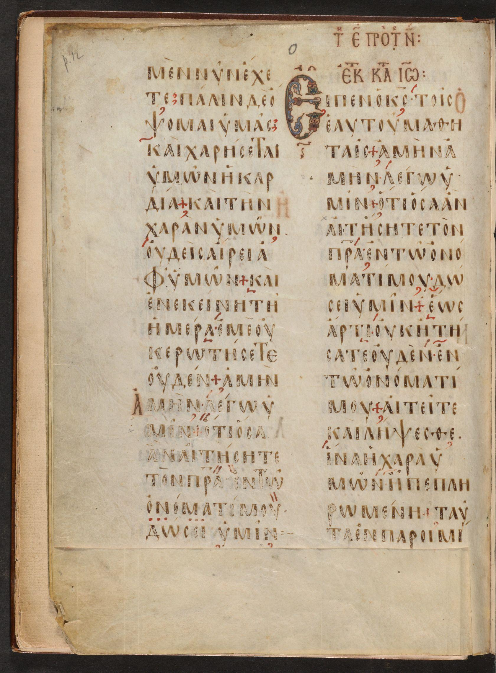 folio 6 verso of the codex